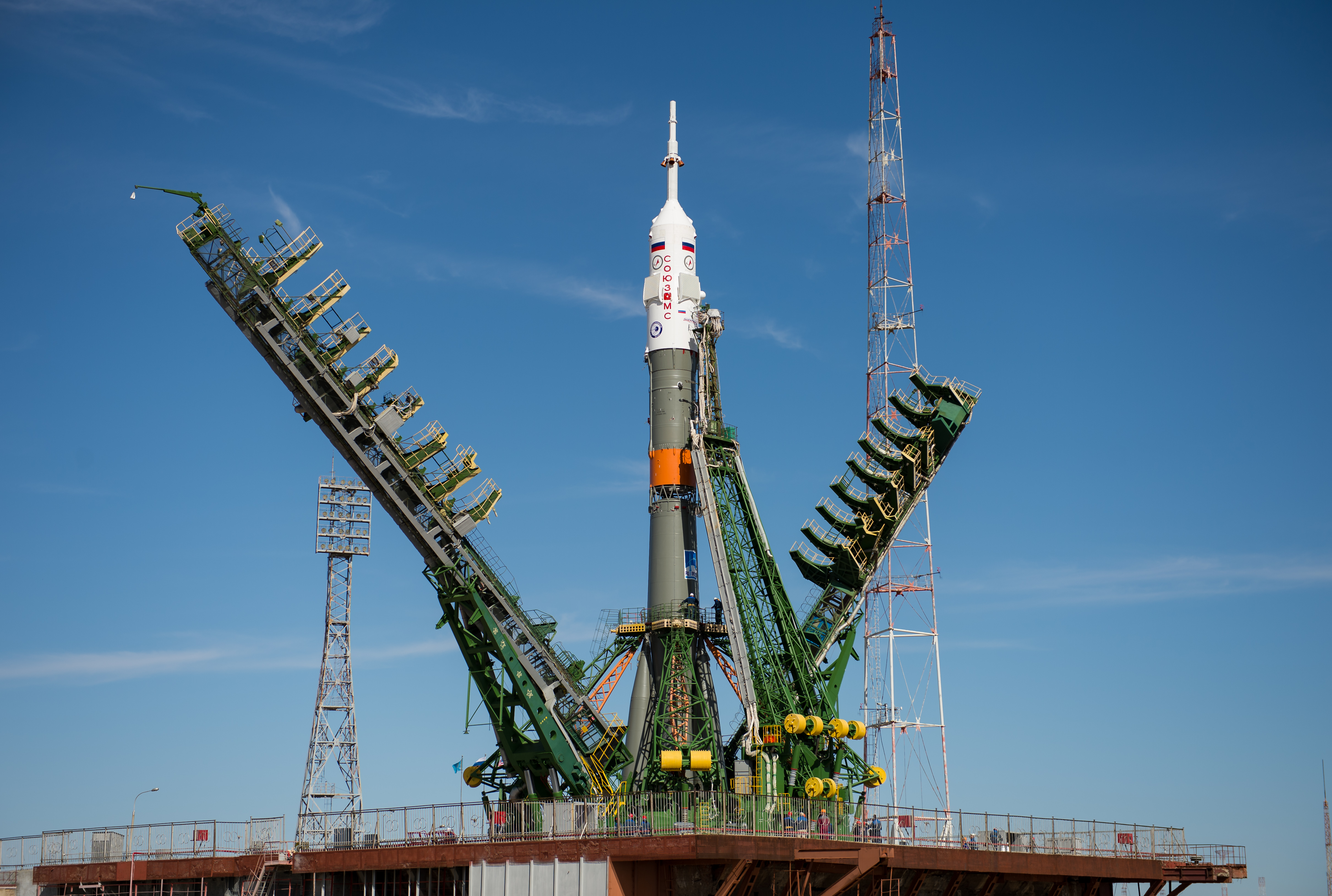 The gantry arms close around the Soyuz MS-04 spacecraft to secure the rocket at the launch pad on Monday, April 17, 2017 at the Baikonur Cosmodrome in Kazakhstan. Launch of the Soyuz rocket is scheduled for April 20 Baikonur time and will carry Expedition 51 Soyuz Commander Fyodor Yurchikhin of Roscosmos and Flight Engineer Jack Fischer of NASA into orbit to begin their four and a half month mission on the International Space Station.